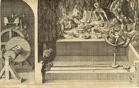 Hortus Palatinus (plate 32), bound with Les raisons des forces mouvants, 1620 Designed by Salomon de Caus (French, active in Germany, 1576?–1626) Published by Jan Norton, Frankfurt Etching; 8 1/2 x 14 1/2 in. (20.5 x 36.8 cm) (plate) Inscription: "machine par laquelle l'on representera une Galatee qui sera trainee sur l'eau par deux daufins" (Machine with figure of Galatea pulled through the water by two dolphins)